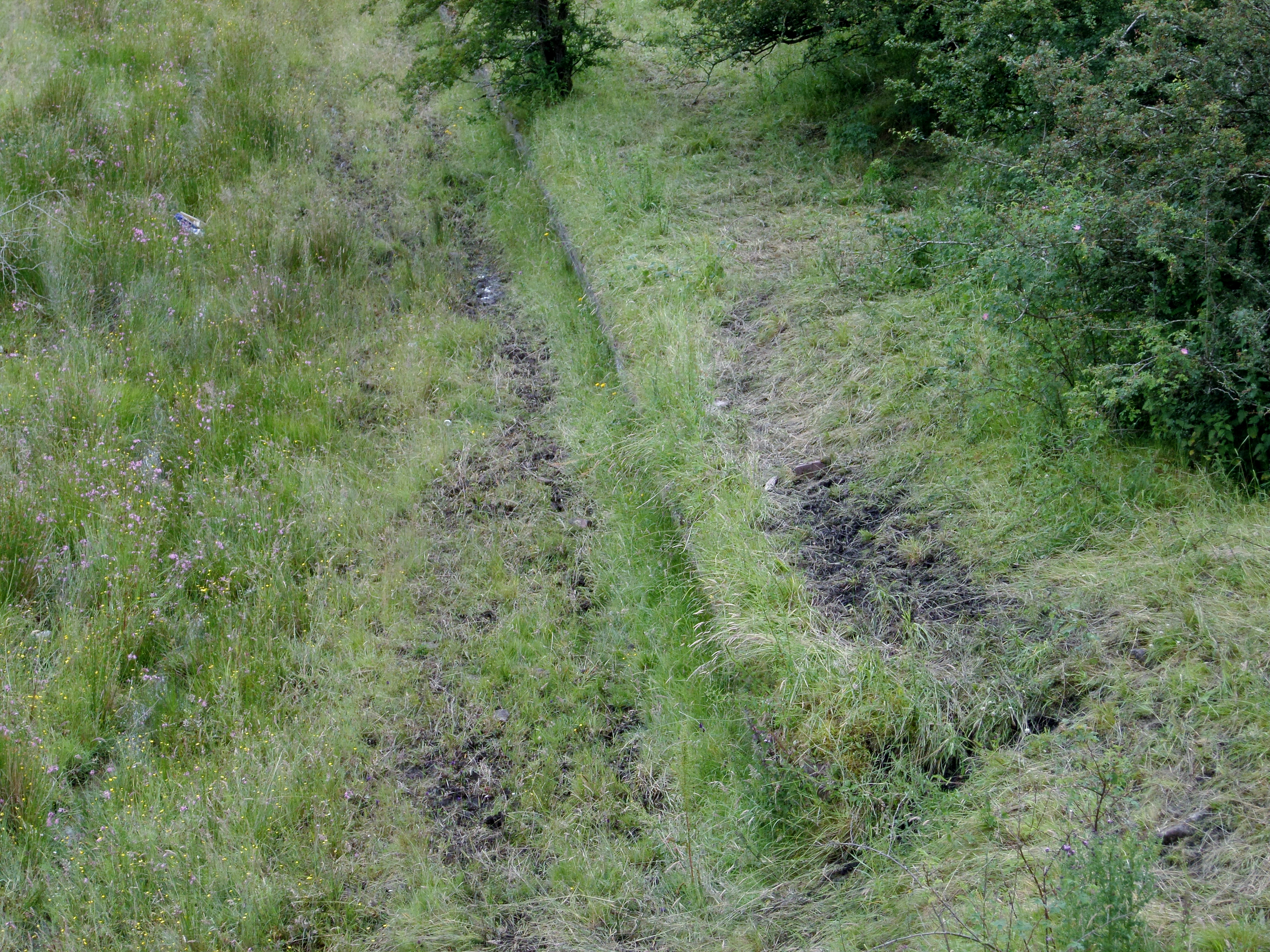 Commondyke railway station site and old platform, Near Auchinleck, East Ayrshire, Scotland.